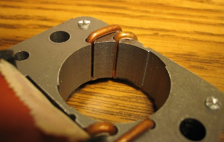 Detail of shaded pole C-frame motor Photo by user Meggar